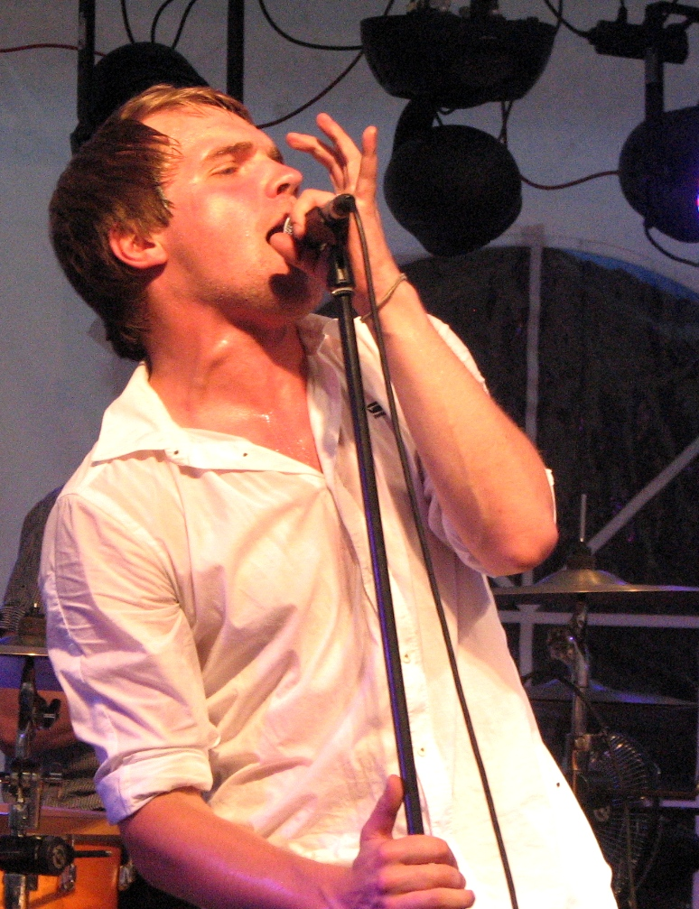 Ott Lepland performing in Õlletoober 2010